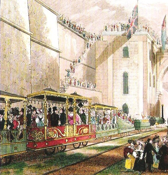 The Duke of Wellington's train being prepared for departure from Liverpool to Manchester, 15 September 1830